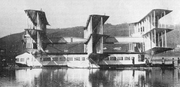 Caproni Ca.60 experimental flying boat on Lake Maggiore, 1921. The Caproni Ca.60, or Transaereo, was a nine-wing flying boat intended to be a prototype for a 100 passenger trans-atlantic airliner. It featured eight engines and three sets of triple wings.